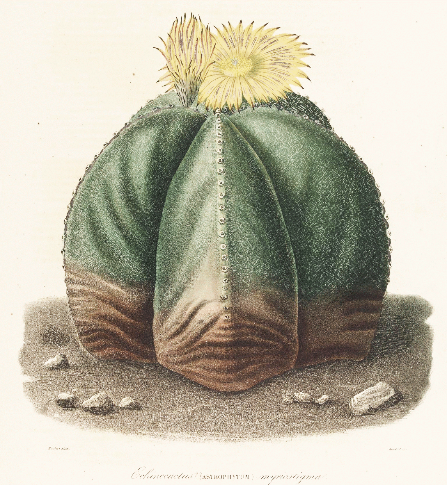 Plate from book